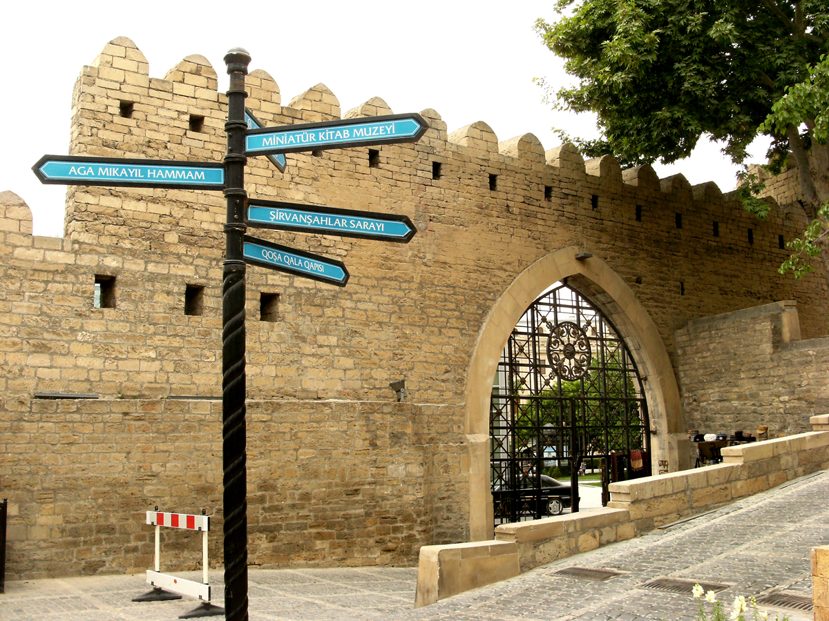 icheri sheher